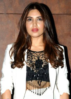 Bhumi Pednekar at the screening of Shubh Mangal Savdhan.